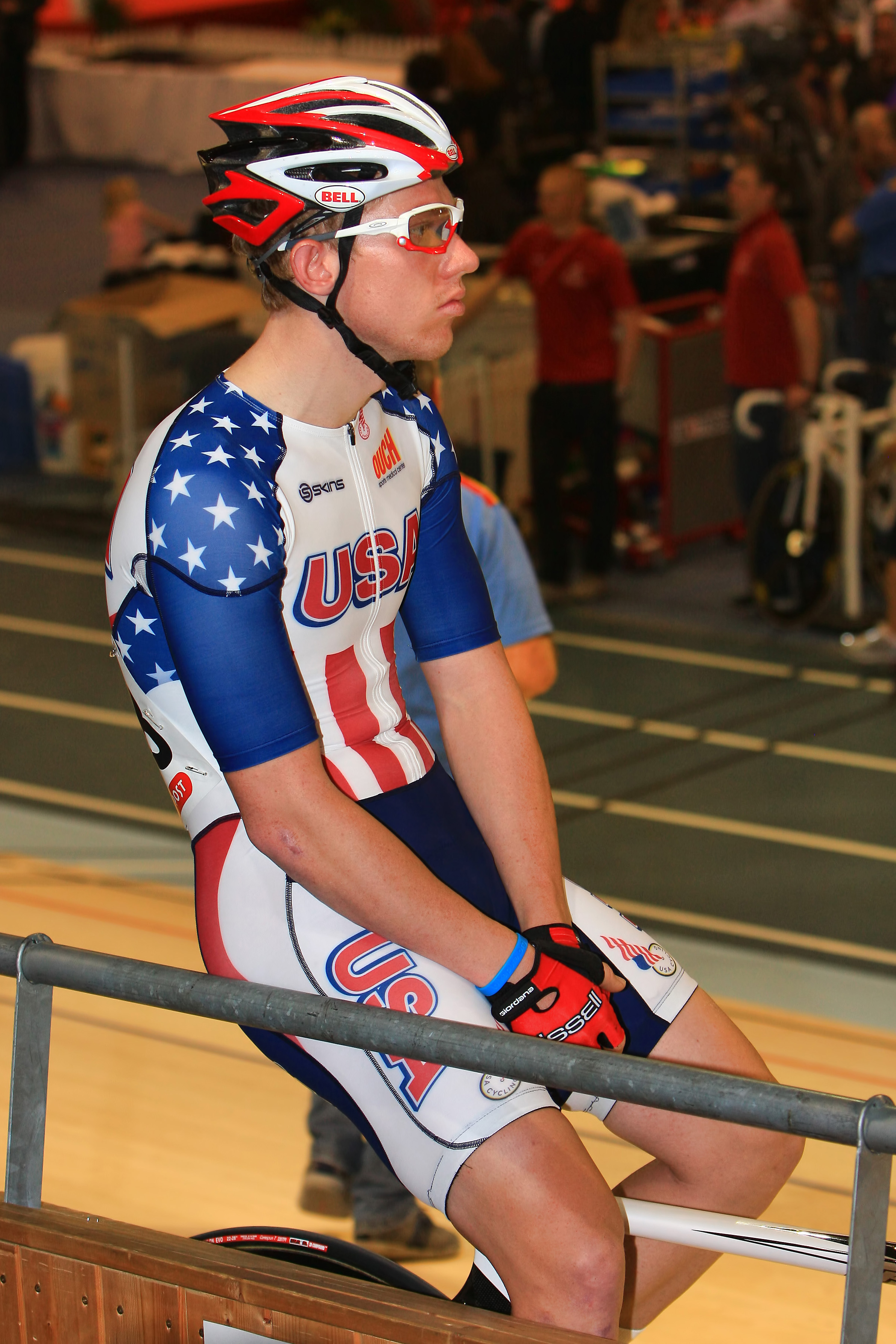 The photo shows cyclist Daniel_Holloway at the start of the 2010 World Championship Madison race on the velodrome in Ballerup, Denmark near Copenhagen. He is racing for the USA team with teammate Colby Pearce.